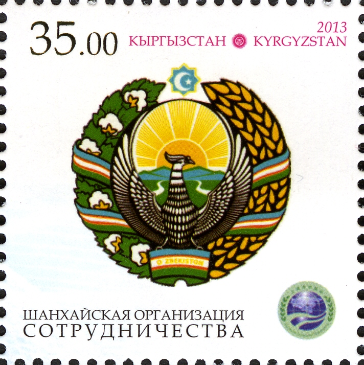 Stamps of Kyrgyzstan, 2013